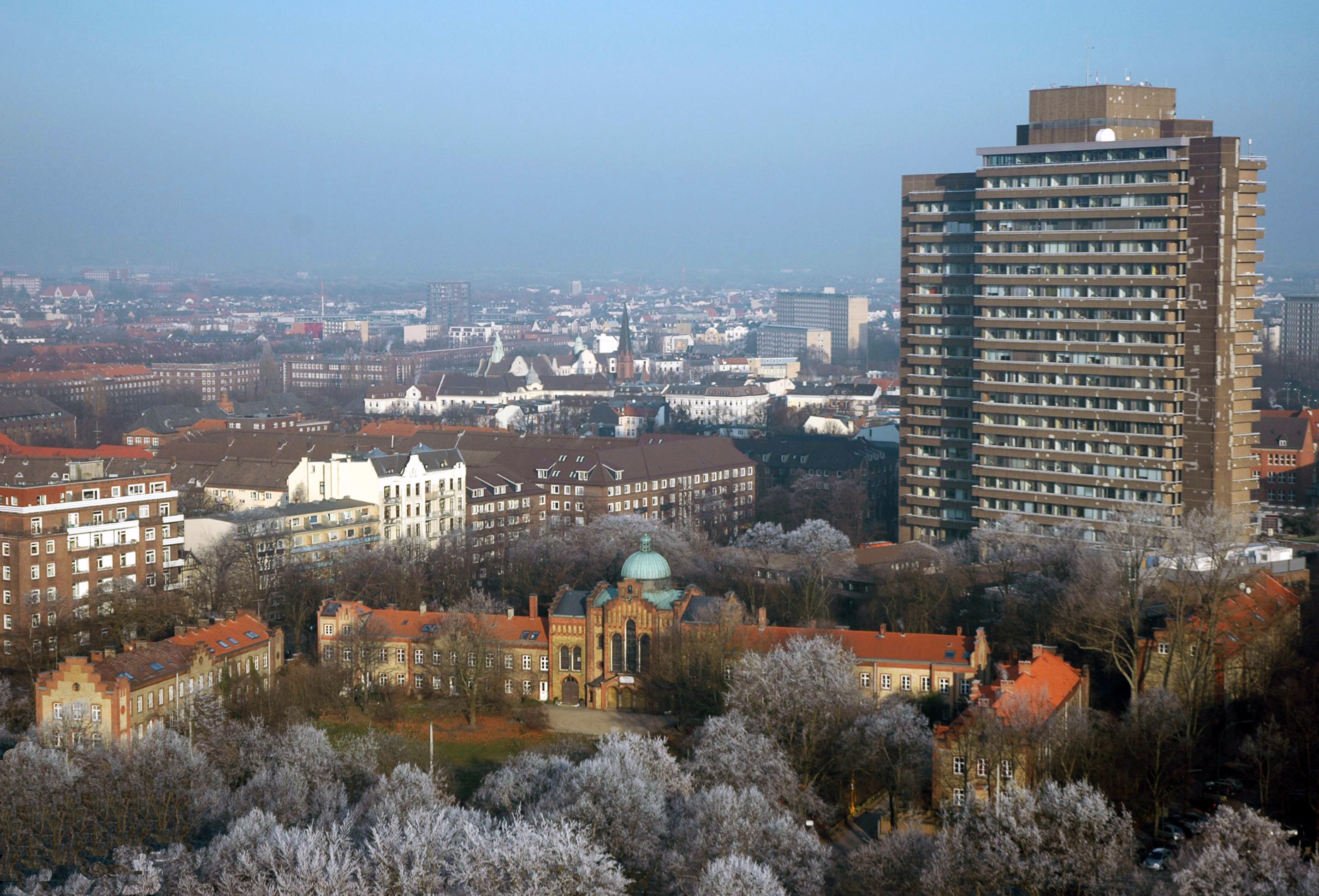 View from Möwenpick Hotel (The old Watertower)